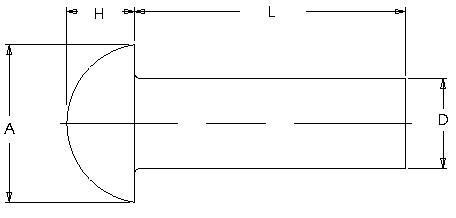 a typical technical drawing of a universal head solid rivet drawn by CKozeluh